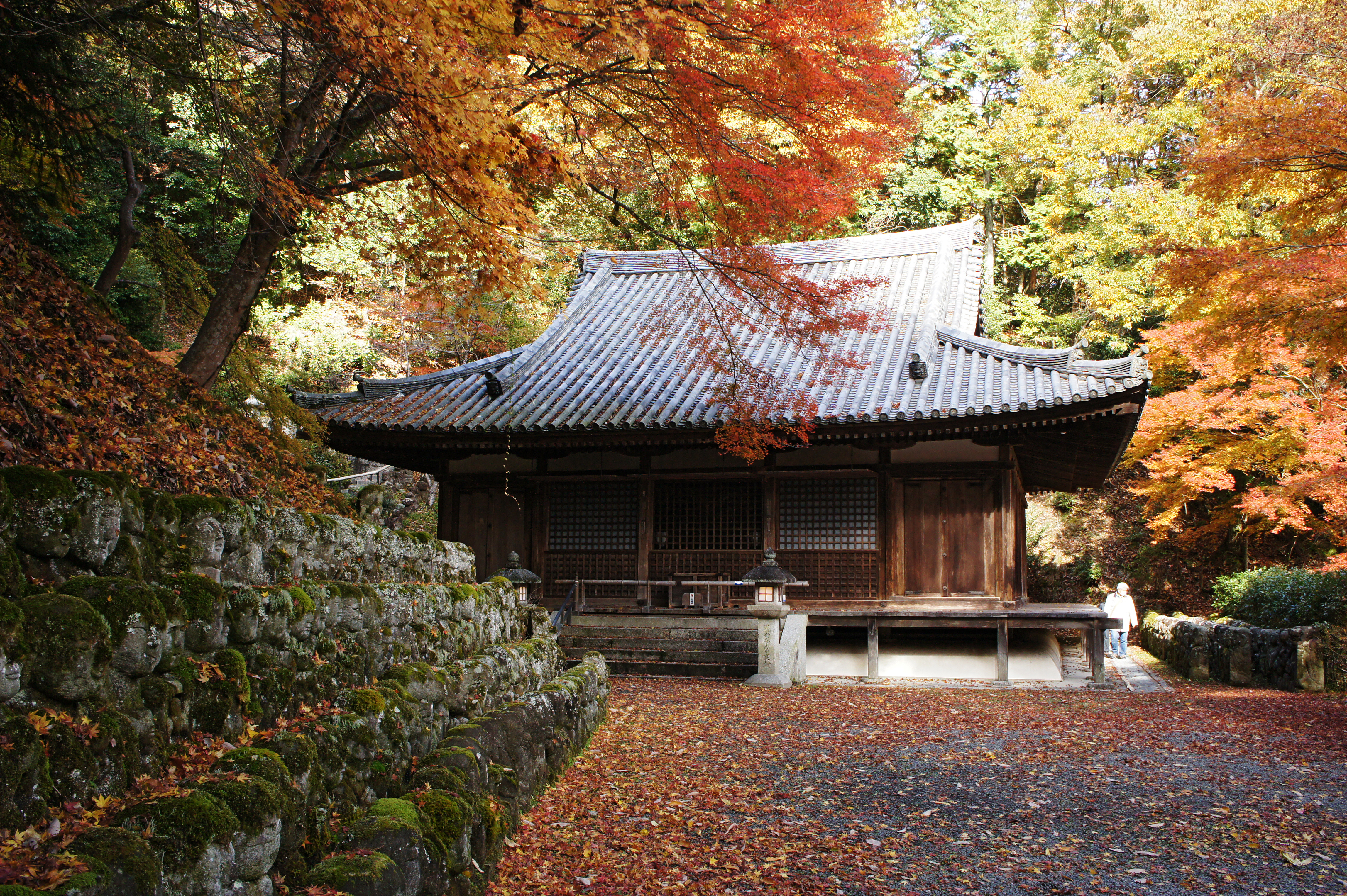 Otagi Nenbutsu-ji in Sagano, Kyoto, Kyoto prefecture, Japan